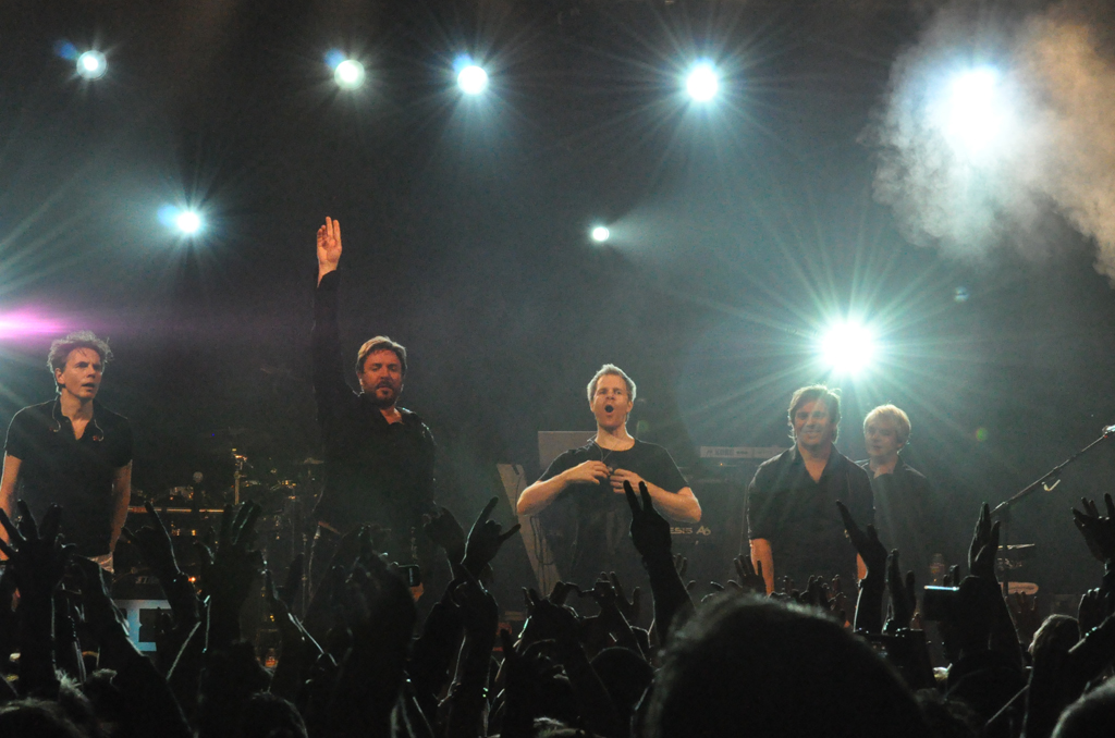 Duran Duran at Stubb's Bar-B-Q, South by Southwest (SXSW) 2011; Austin, Texas; March 16, 2011